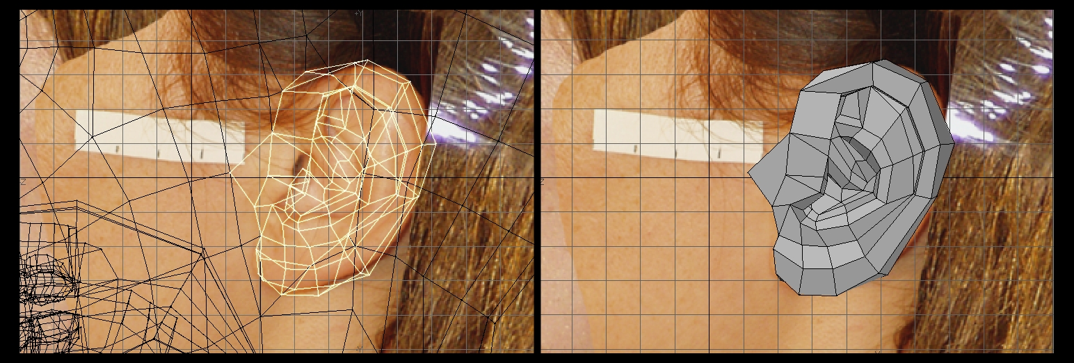 Backdrop image used in 3D modeling